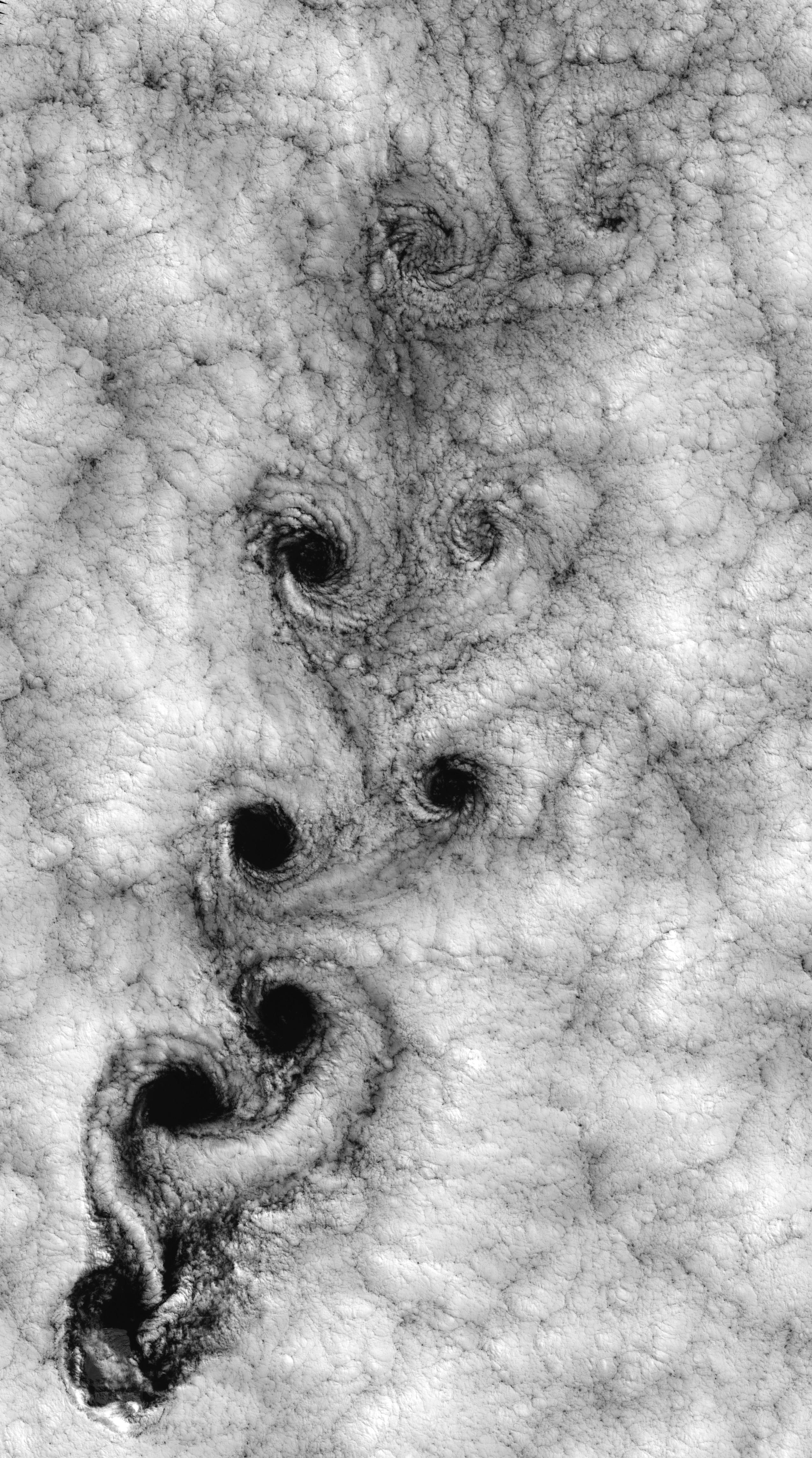 This Landsat 7 image of clouds off the Chilean coast near the Juan Fernandez Islands (also known as the Robinson Crusoe Islands) on September 15, 1999, shows a unique pattern called a "von Kármán vortex street." This pattern has long been studied in the laboratory, where the vortices are created by oil flowing past a cylindrical obstacle, making a string of vortices only several tens of centimeters long. Study of this classic "flow past a circular cylinder" has been very important in the understanding of laminar and turbulent fluid flow that controls a wide variety of phenomena, from the lift under an aircraft wing to Earth's weather.